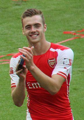 Crop of Calum Chambers celebrating after winning the 2014 Community Shield for Arsenal. Previous crop (whole body) was too long